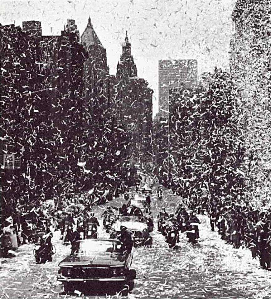 Ticker tape parade for Gordon Cooper in New York in 1963